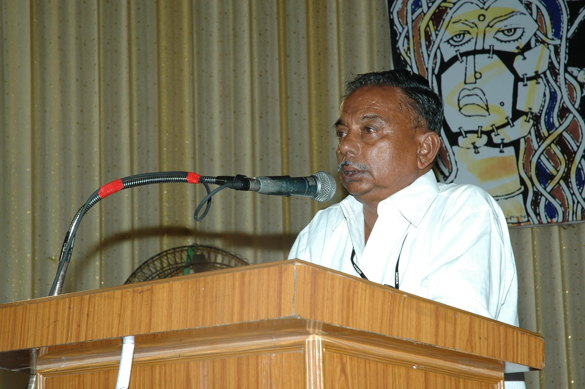 Writer